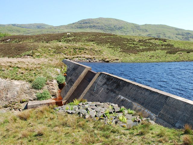 Dam on Loch a' Chaorainn Cruach Fearna in the distance.